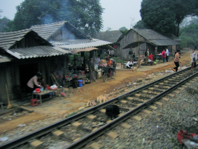 Railway tracks near Lao Cai, Vietnam.